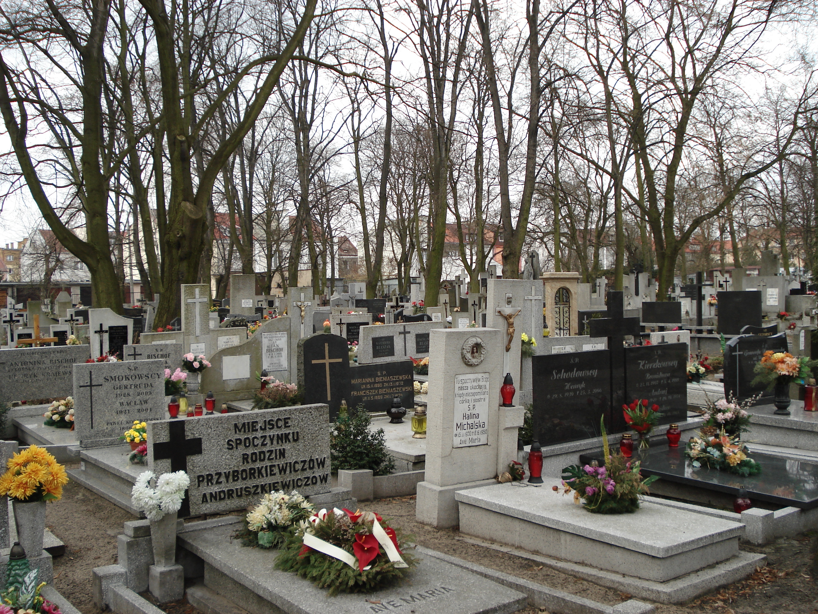 Wybickiego Street Cemetery in Toruń